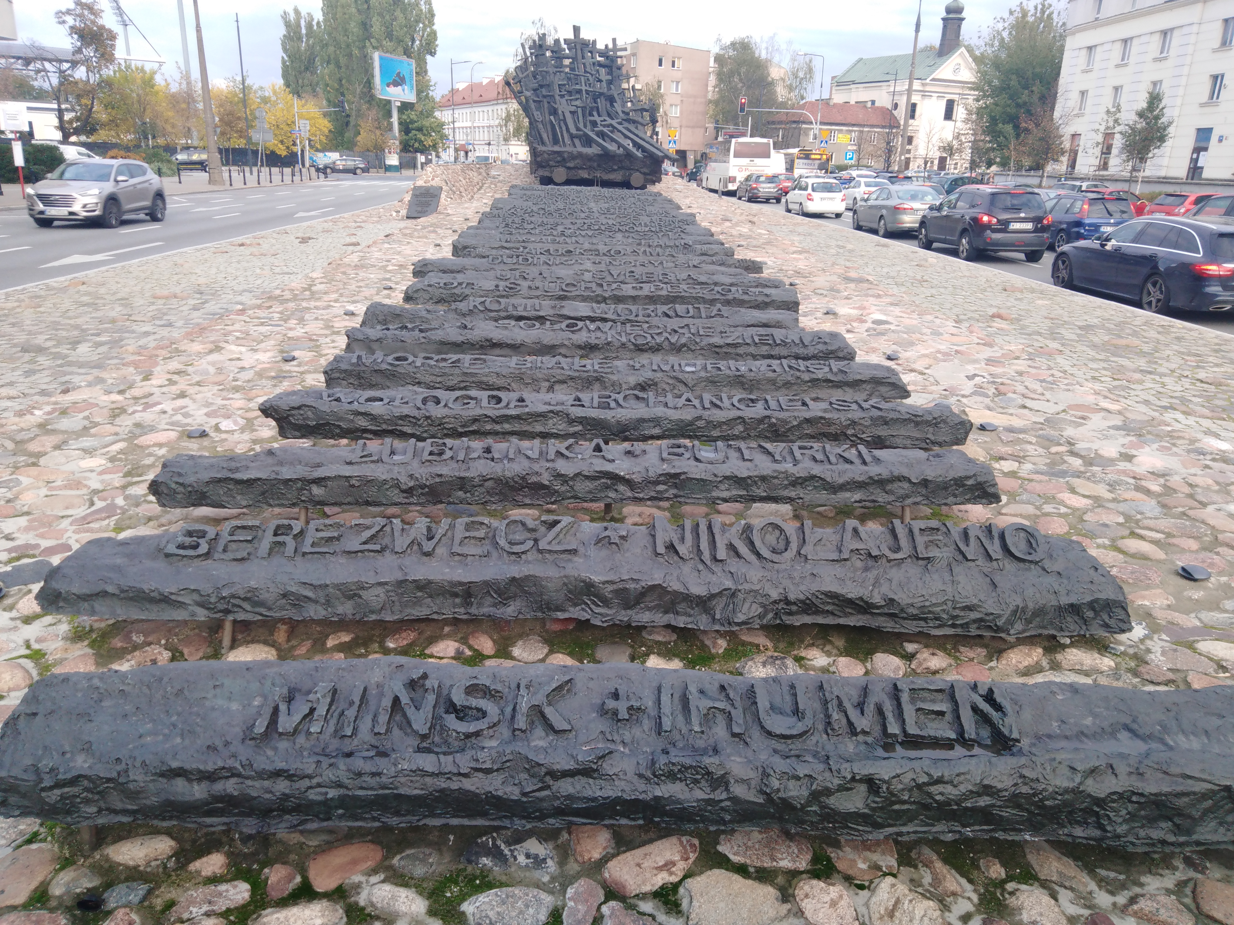 Monument to the Fallen and Murdered in the East in Warsaw, Poland.The railway tracks are adorned with the names of the places where NKVD prisoners massacres took place in June 1941.